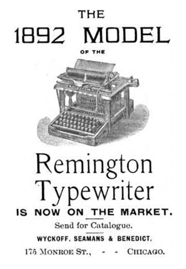 Wyckoff, Seamans and Benedict advertisement for the Remington Model 1892